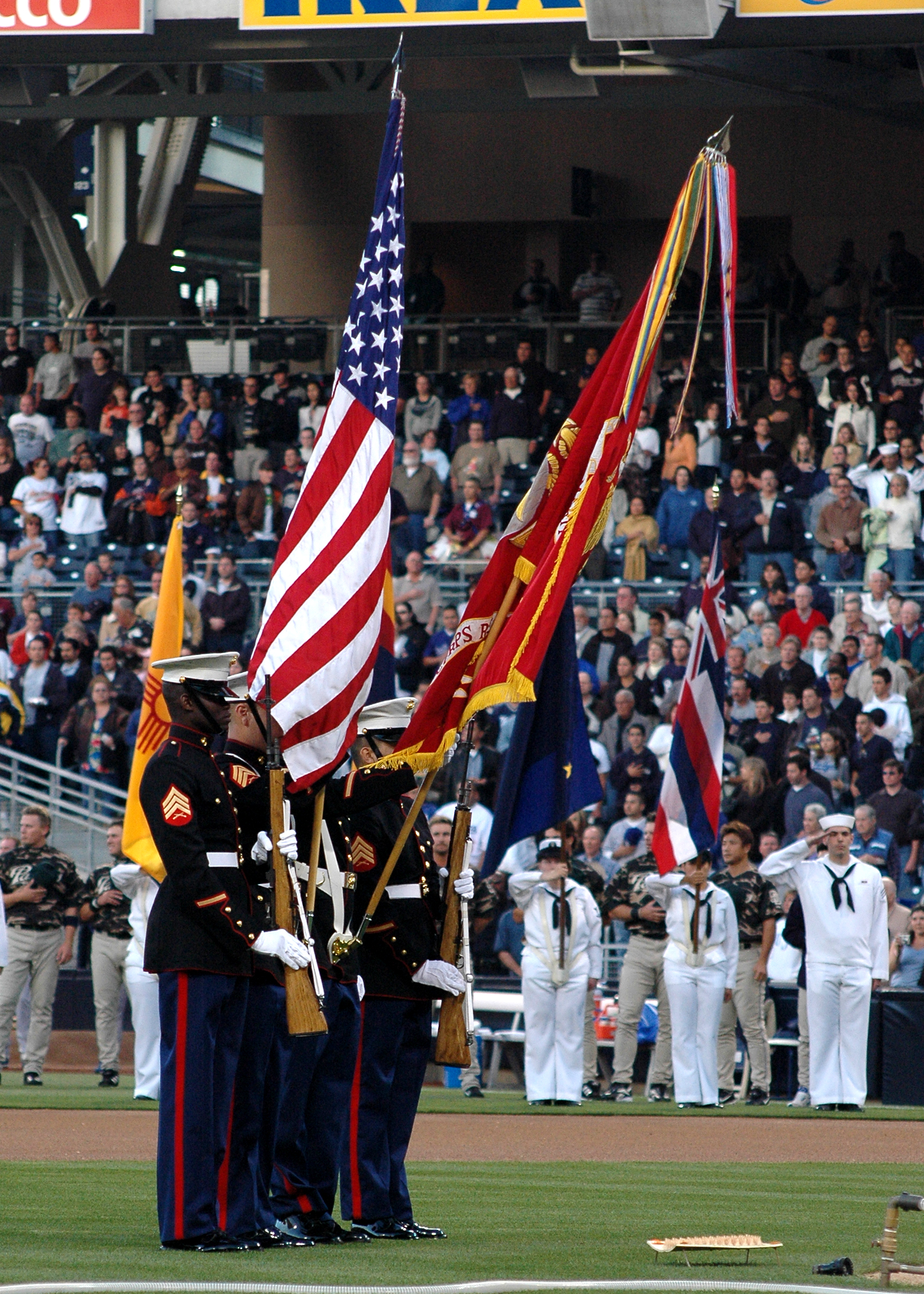 Members of a U. S. Marine Corps color guard present the colors as part of opening ceremonies during Military Appreciation Day at Petco Park, home to the San Diego Padres.